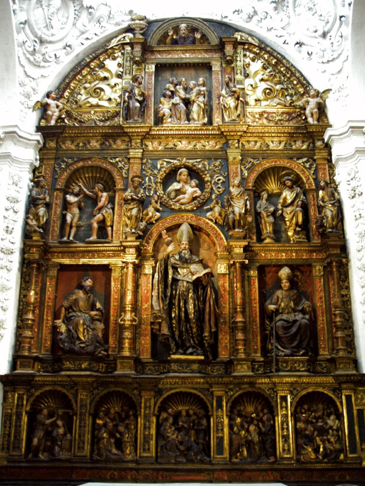 Retablo renacentista plateresco (1521) de la Capilla de San Agustín de la Seo de Zaragoza (Aragón, España)